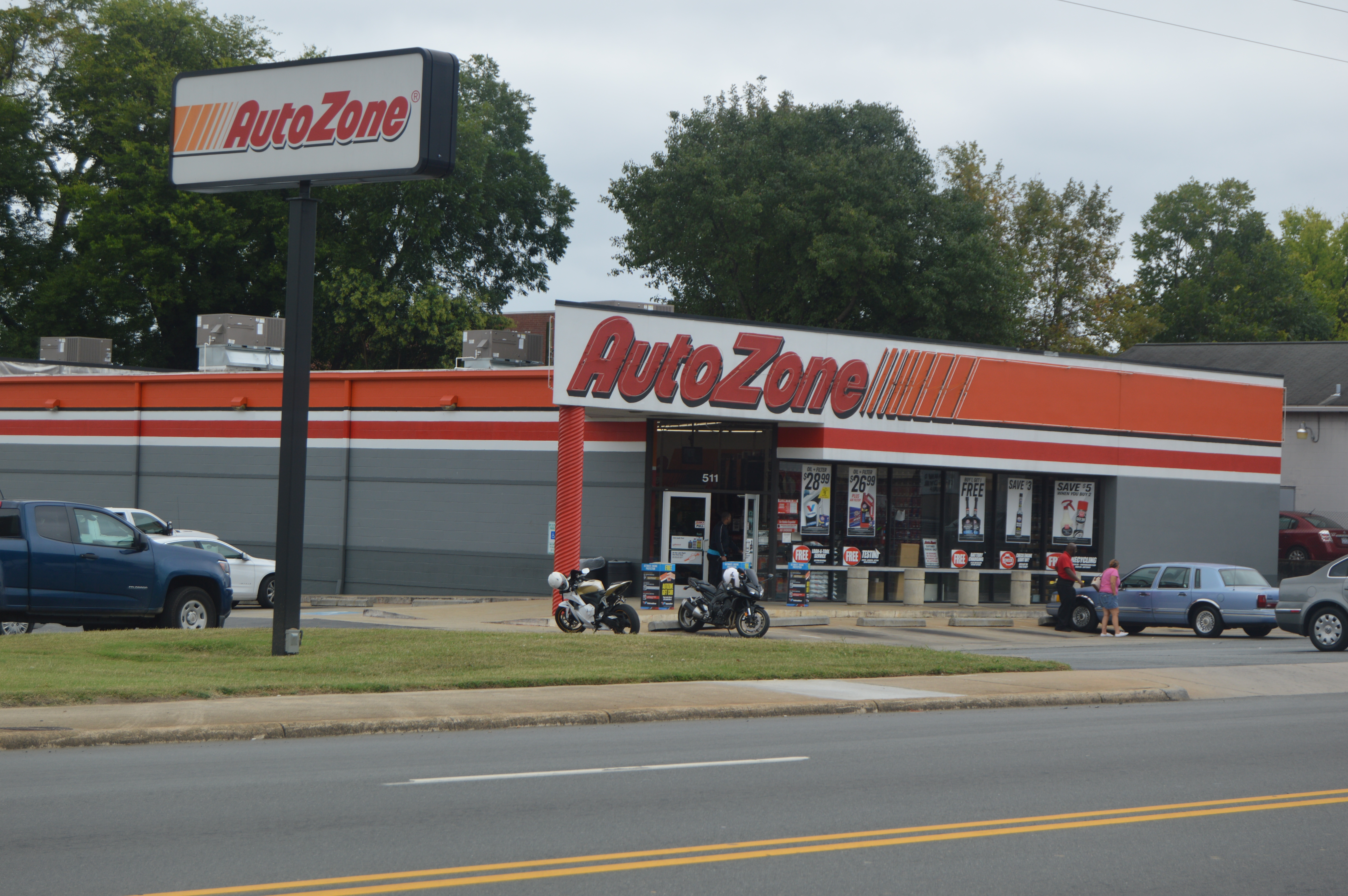 Front of the AutoZone store located at 511 S. Main Street in Lexington, North Carolina, United States. It occupies the site of the John Henry Welborn House, which was listed on the National Register of Historic Places in 1984; although the house has been destroyed, the site has not yet been removed from the National Register.